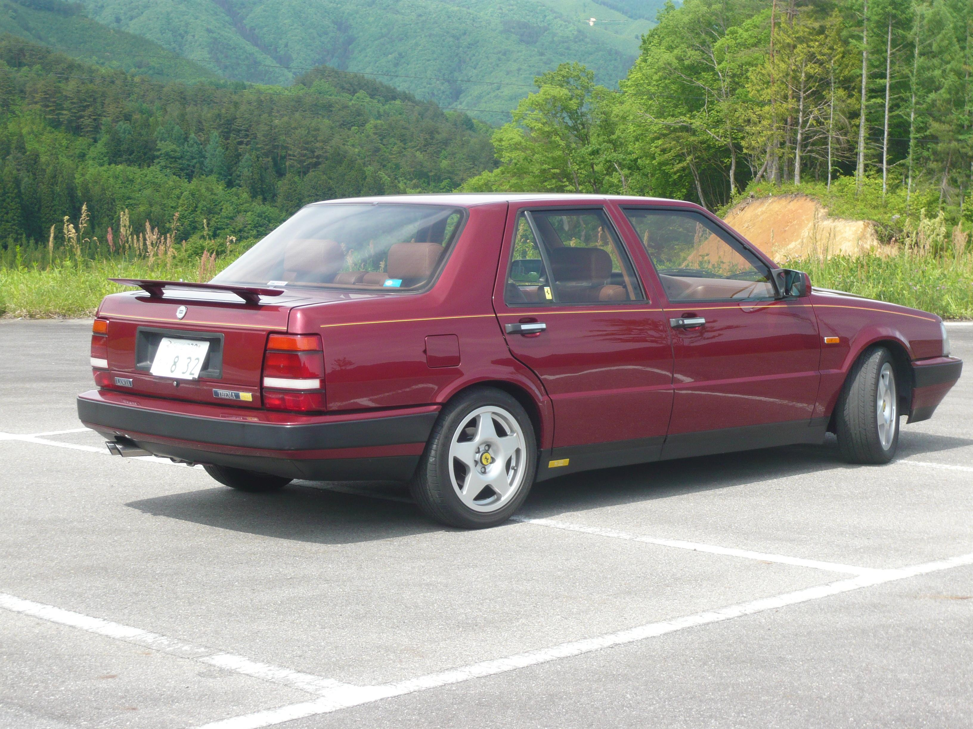 Lancia Thema 8･32 rear